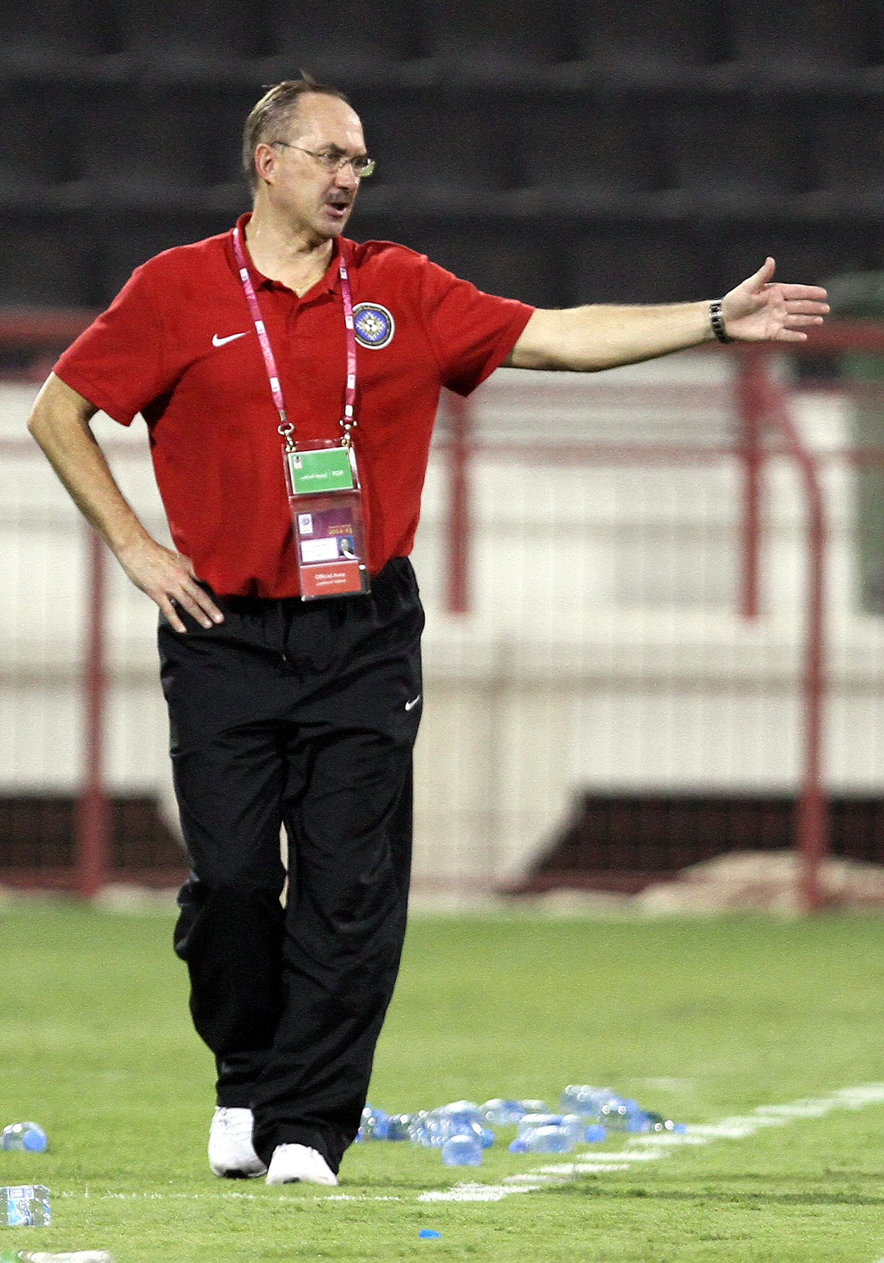 German coach Uli Stielike during a Qatar Stars League match. Picture by Vinod Divakaran